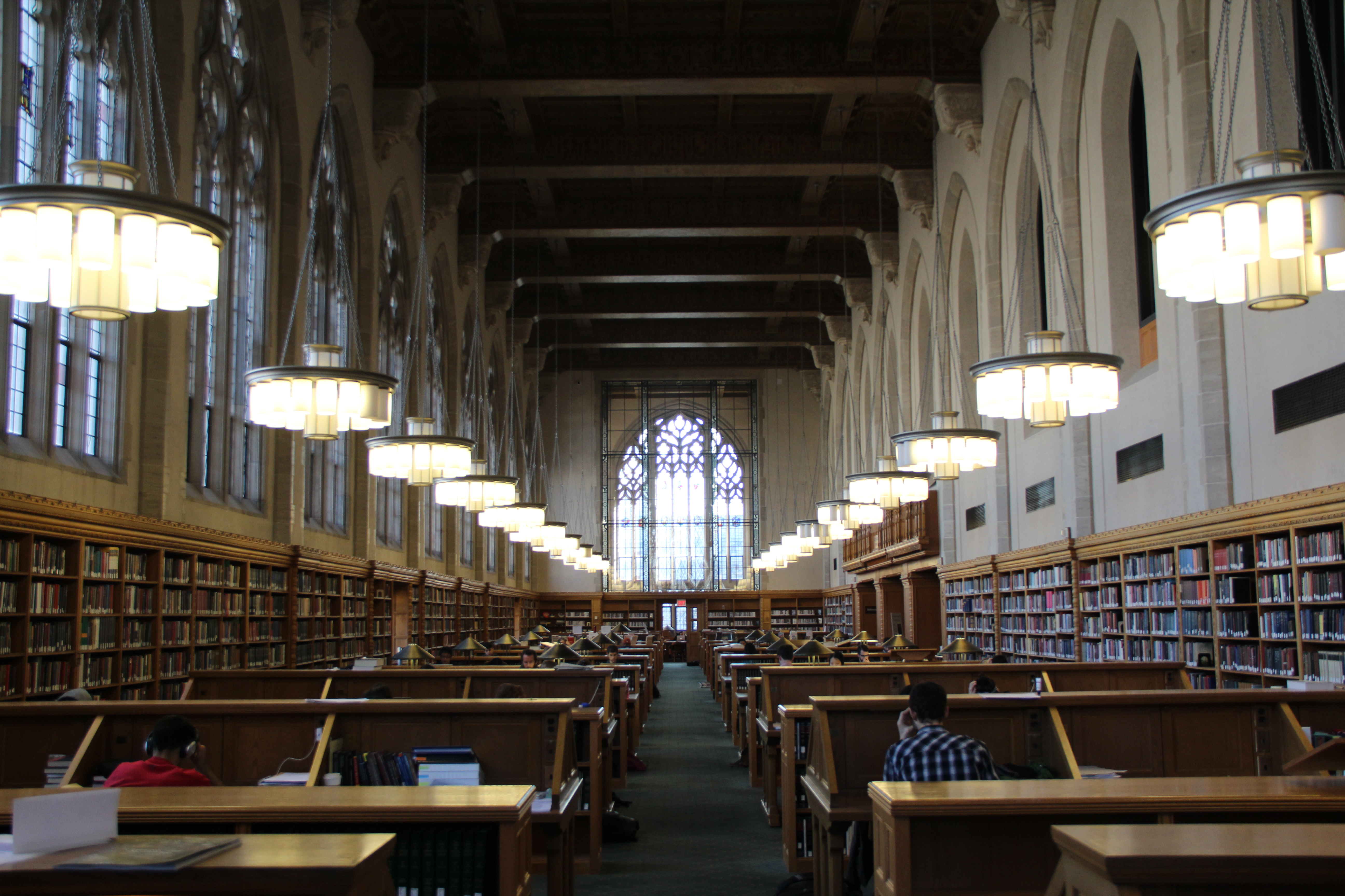 Lillian Goldman law library, Yale Law School, Yale University, New Haven, CT